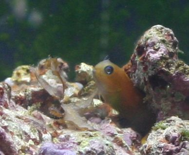 Ecsenius midas in its cave